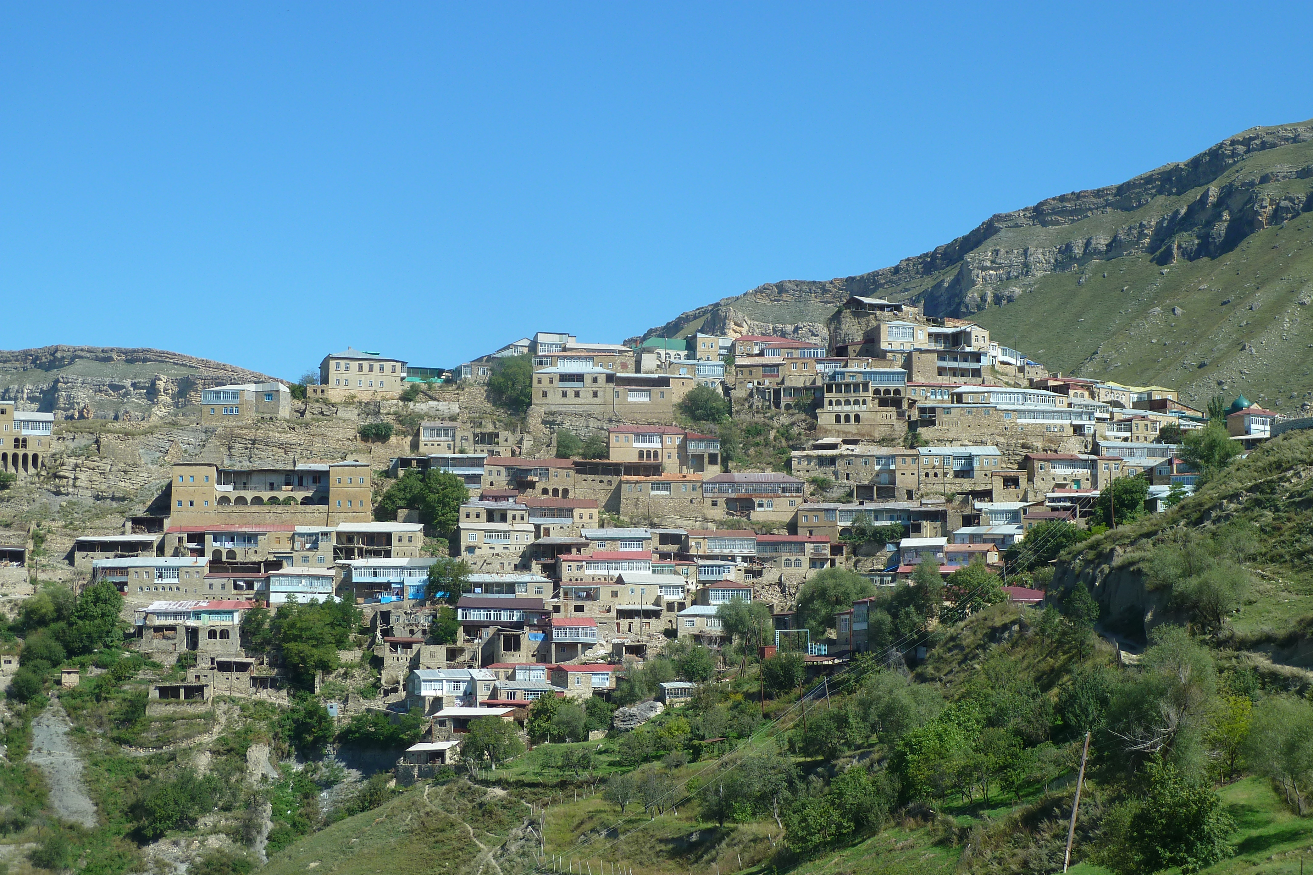 The village Chokh in Dagestan, Russian Federation